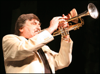 Late Kenny Ball performes at Flameburst 2006